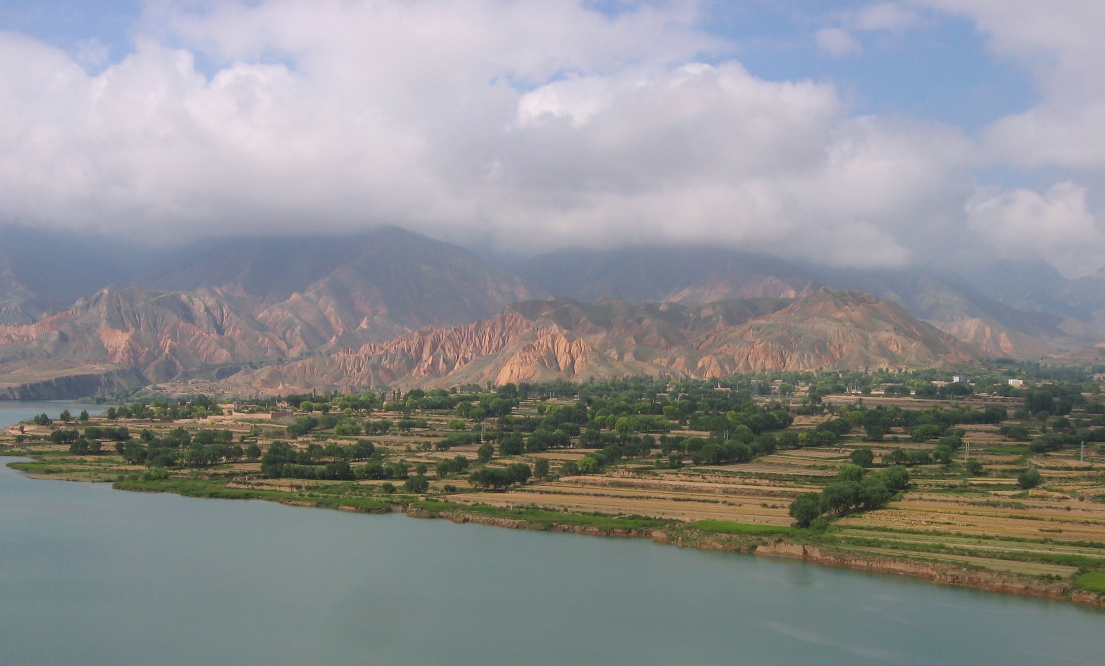 Southern Shores of Yellow River - Huang He - near Xunhua